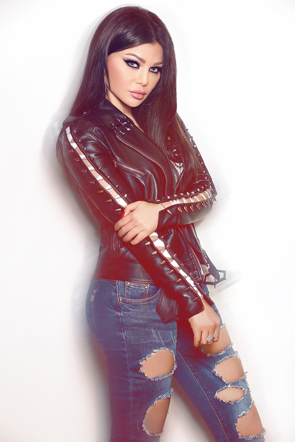 Haifa Wahbe Profile Pic1